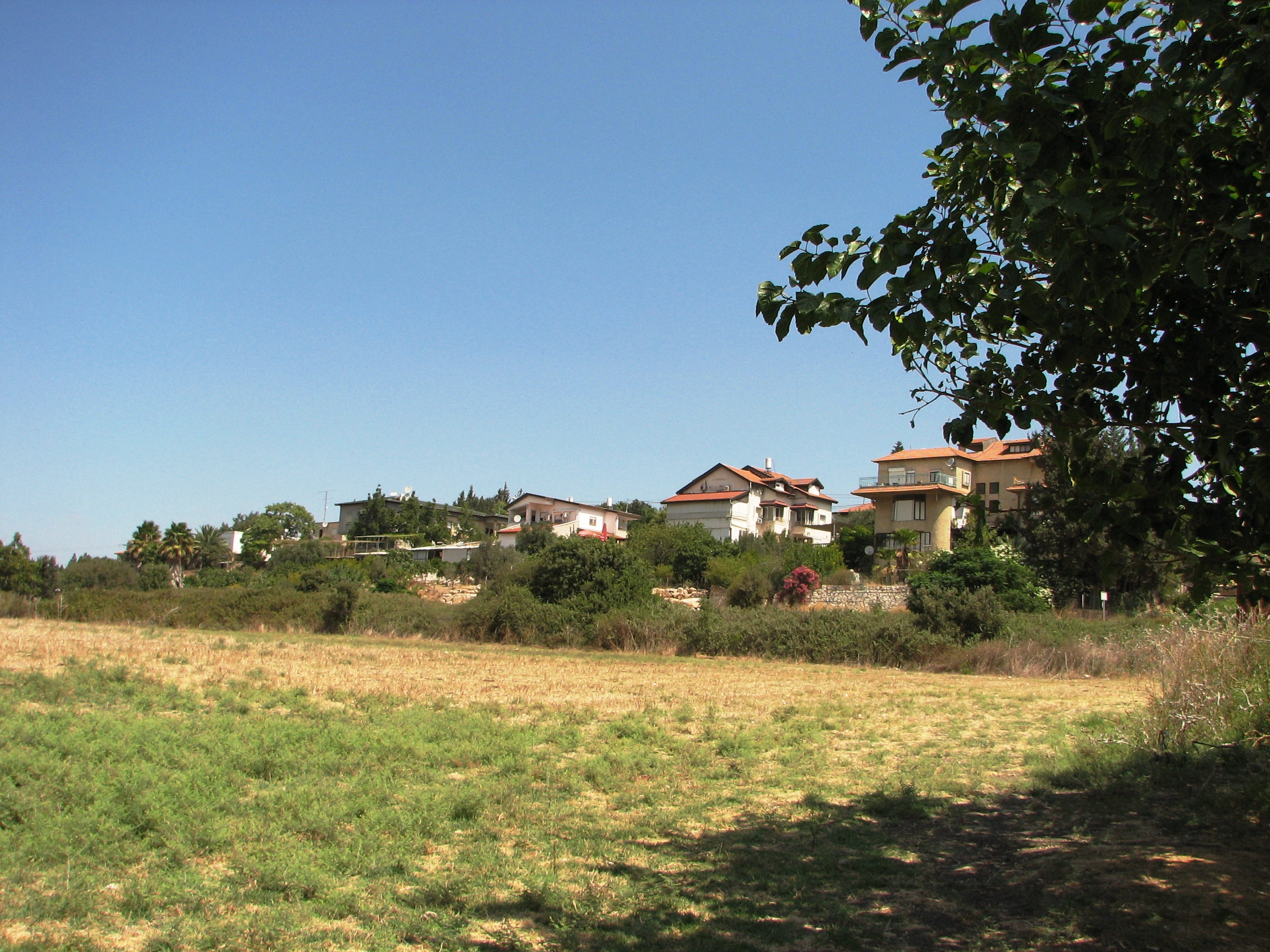 Alroy spring Flowing to the Kishon river near Kiryat Tivon in Israel.